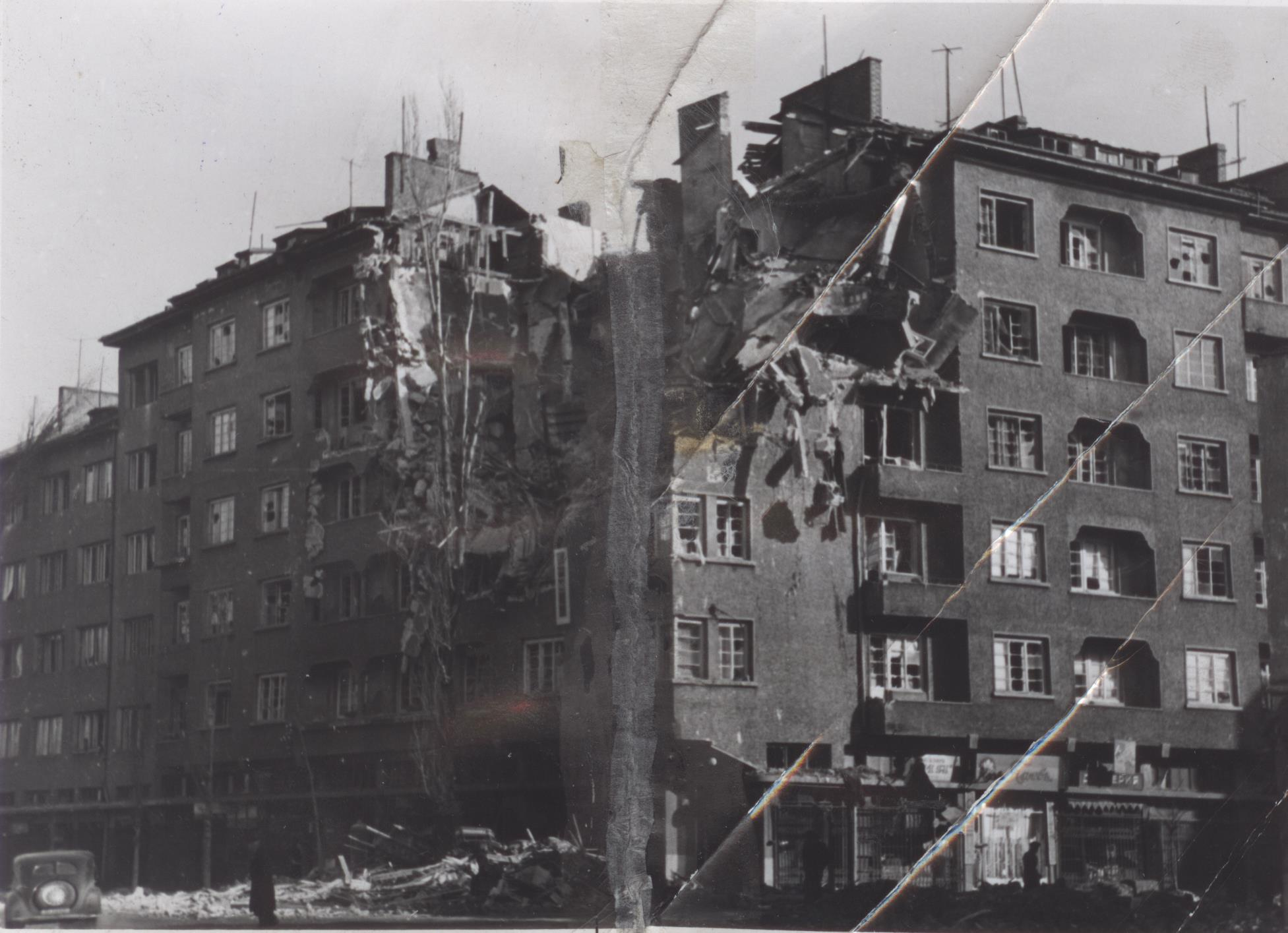 Sofia Bombings 1944: The crossing of Graf Ignatiev Str. and Ferdinand Blvd.